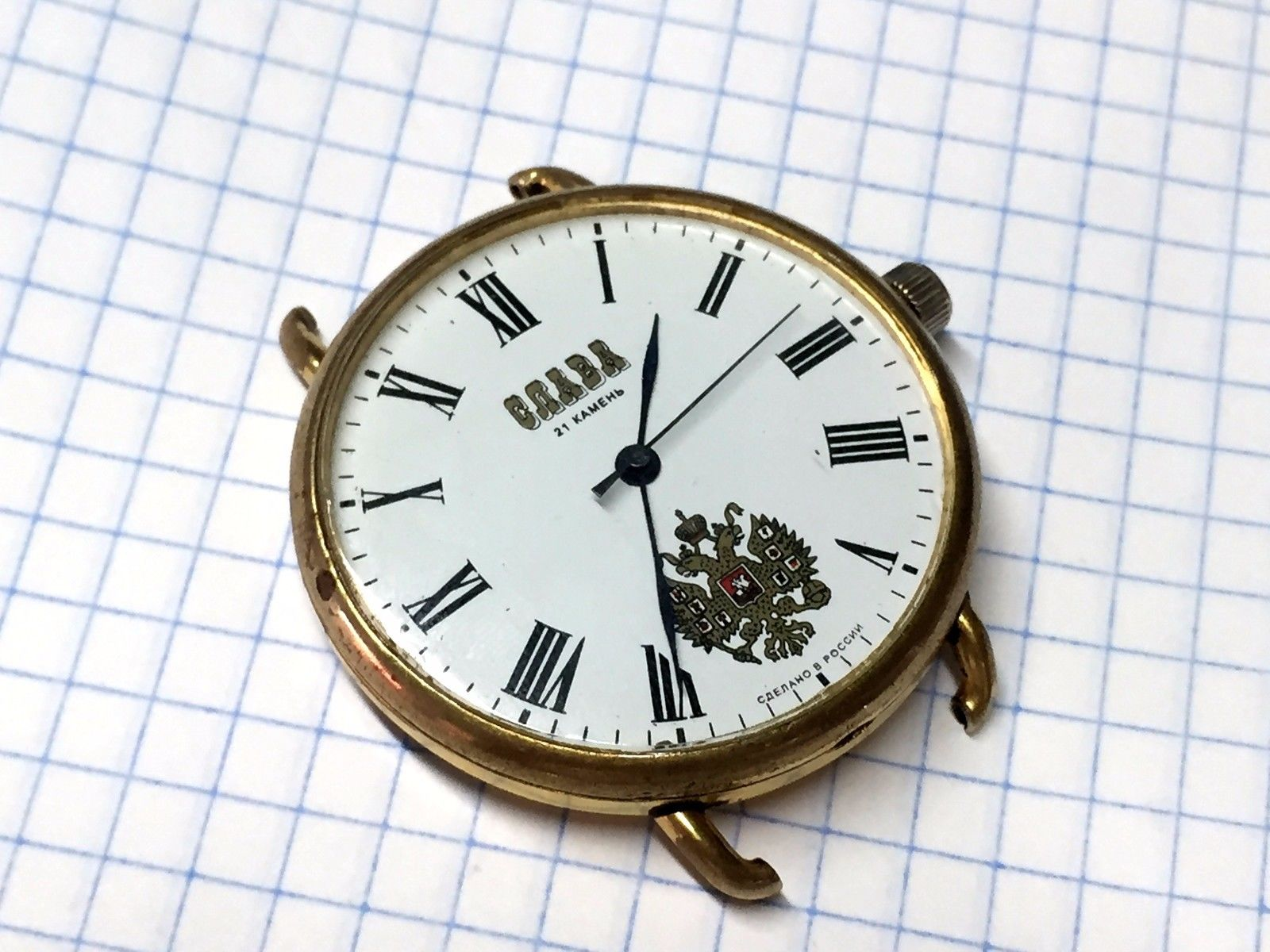 SLAVA for men made in Russia 21 jewel gilding series 20